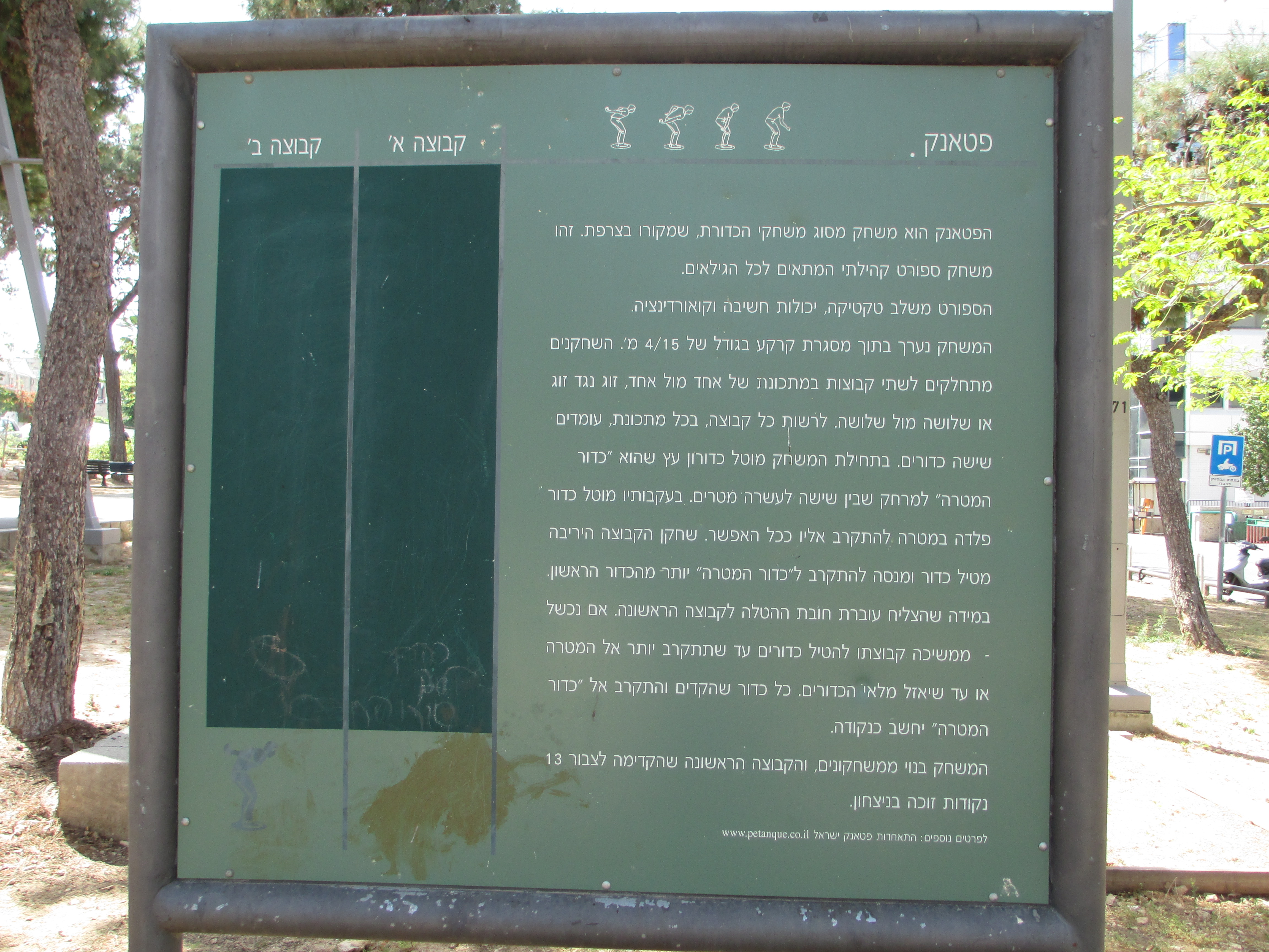 petanque rules in hahaskala bulevard in tel aviv שלט על הוראות משחק הפטנק בשדרות ההשכלה בתל אביב